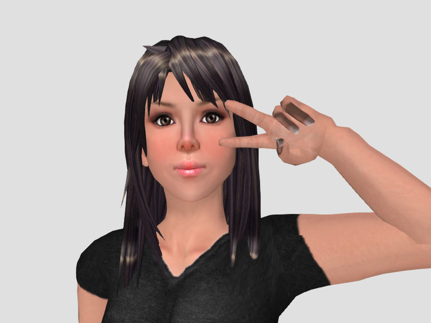 The gesture of "Me" performed in the song "Megumi-no-hito" (1983) of RATS & STAR (Japanese band)